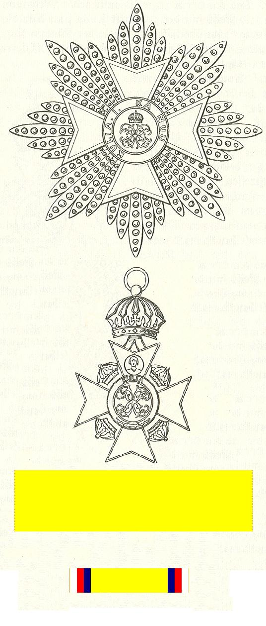 Star, cross and ribbon of the Kapiolani Order.